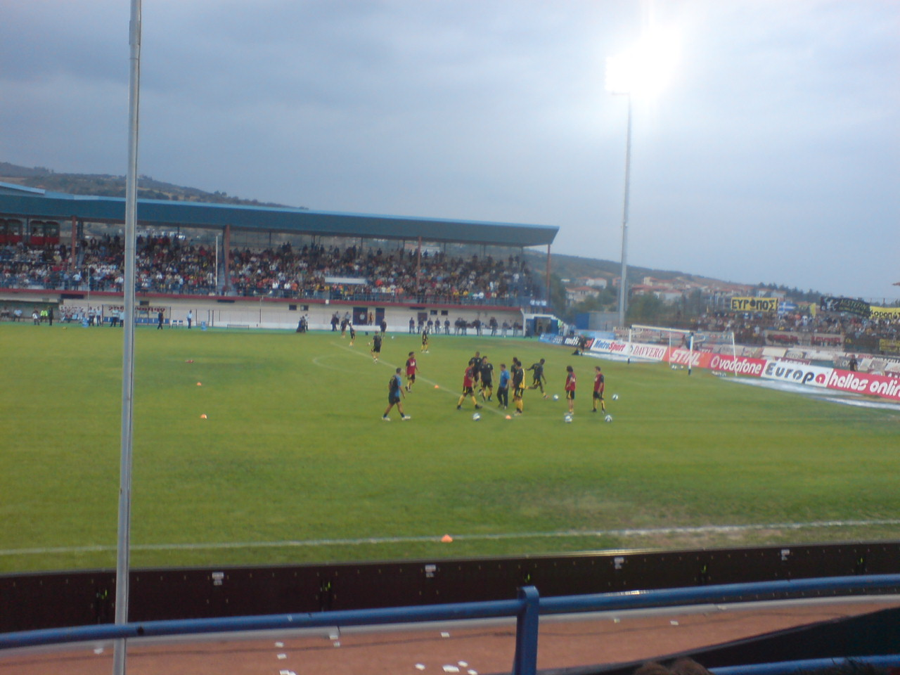 Warmup during the game betweer Veria FC and AEK FC